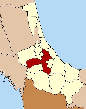 Map of Songkhla province, Thailand, highlighting the district Hat Yai (อำเภอหาดใหญ่)